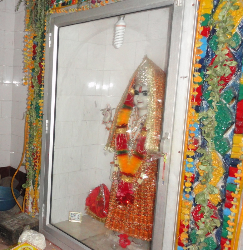 this is photo chaturbhuj baba (Vishnu bhagvan) situated in Chaturbhuj baba Mandir in mangalpur.